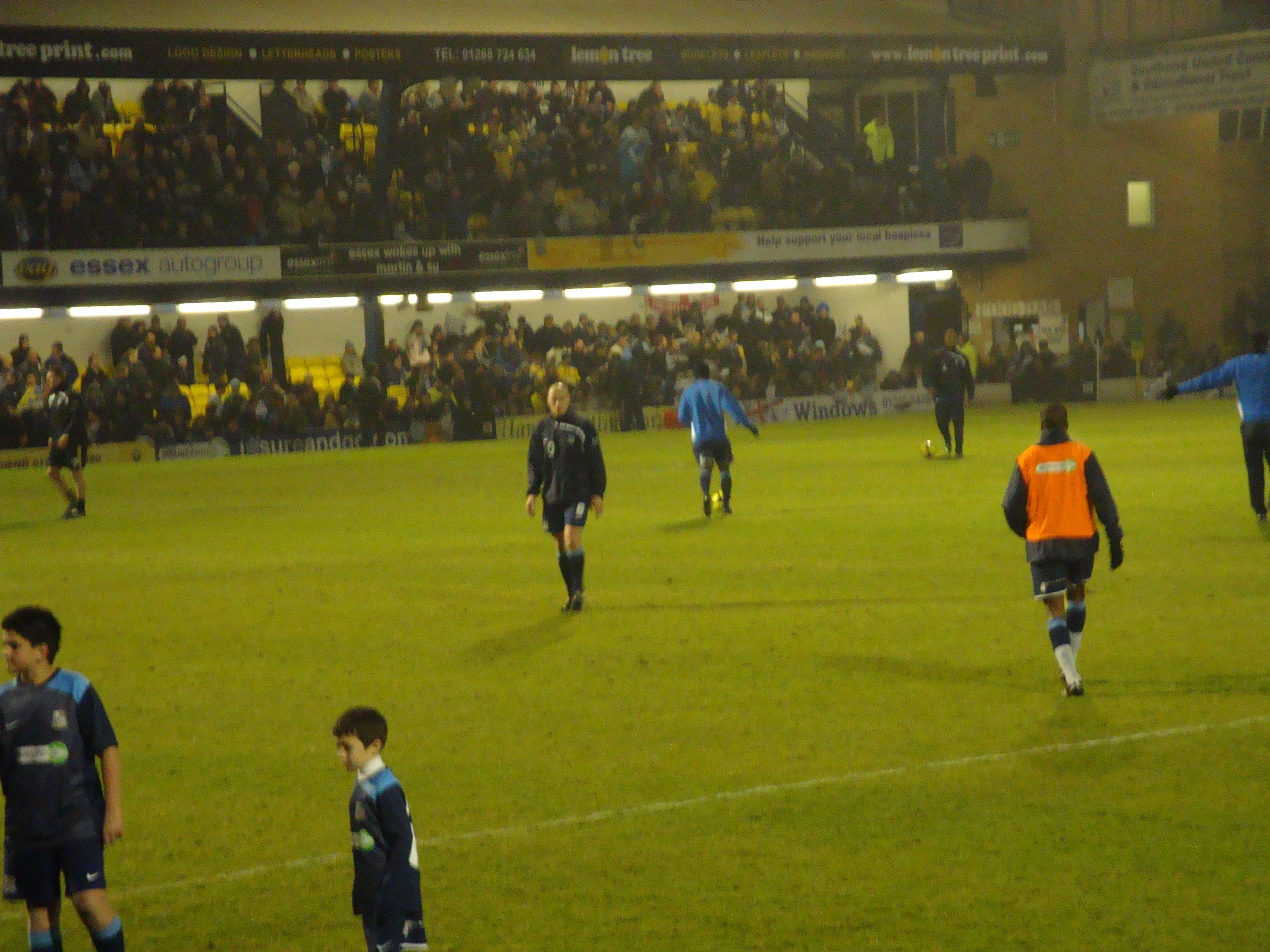 Southend players warm up prior to there FA Cup replay with Chelsea